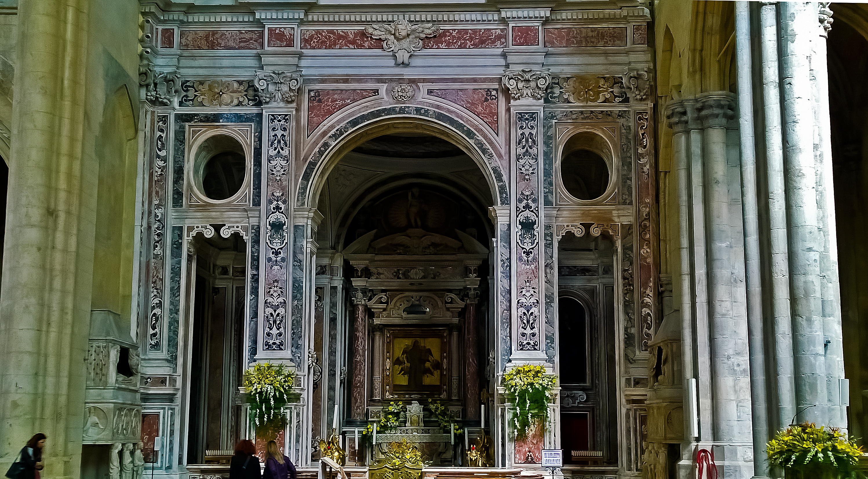 Sant'Antonio Chapel